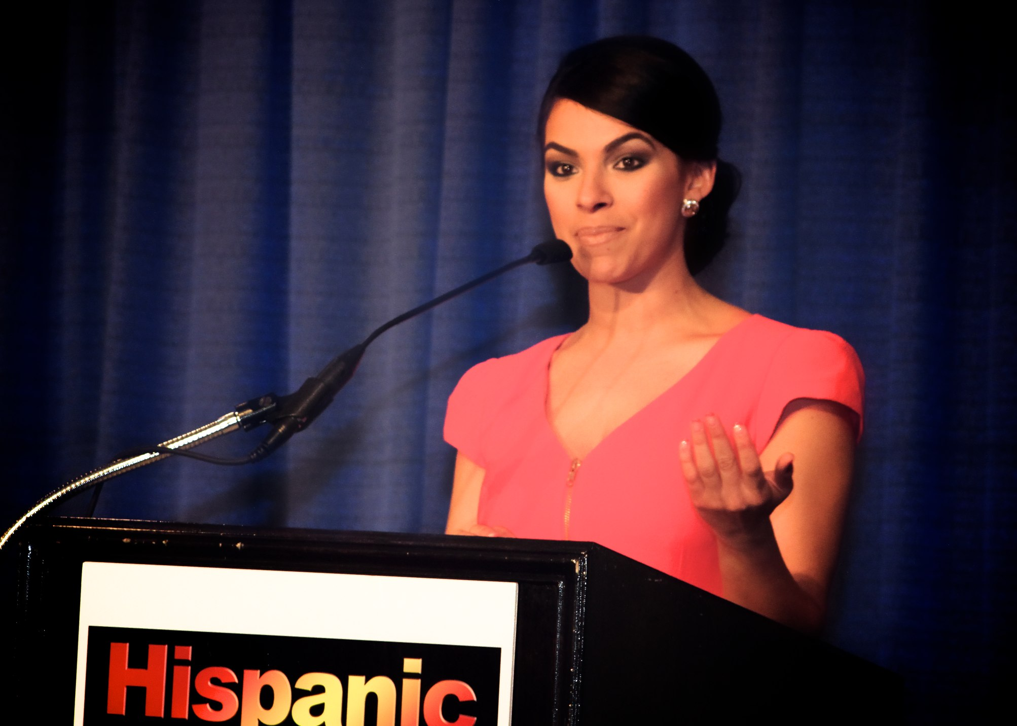 Amy Diaz at the 2014 Latina Conference